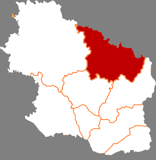 Location of Huachi county in Qingyang city, China